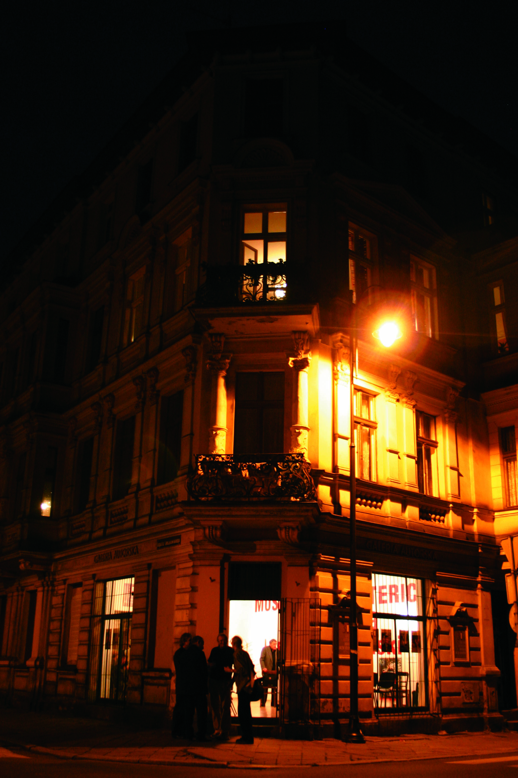 This is my own work